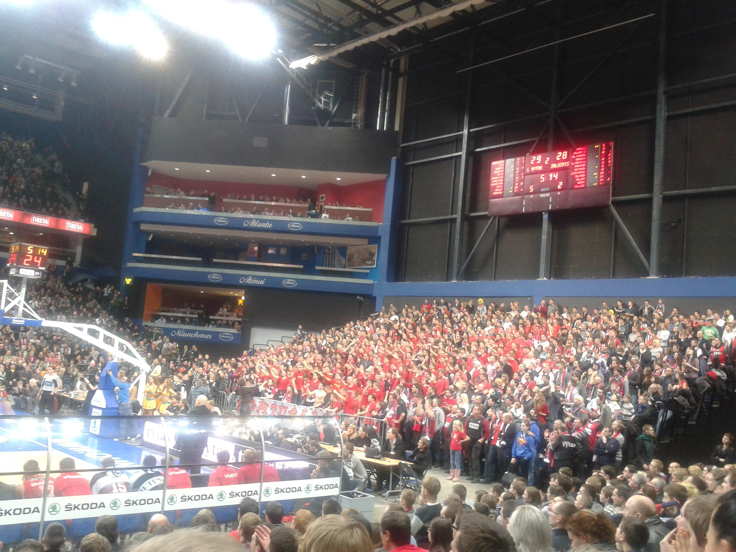 Lietuvos Rytas fans during the LKL game against Žalgiris in Siemens Arena.